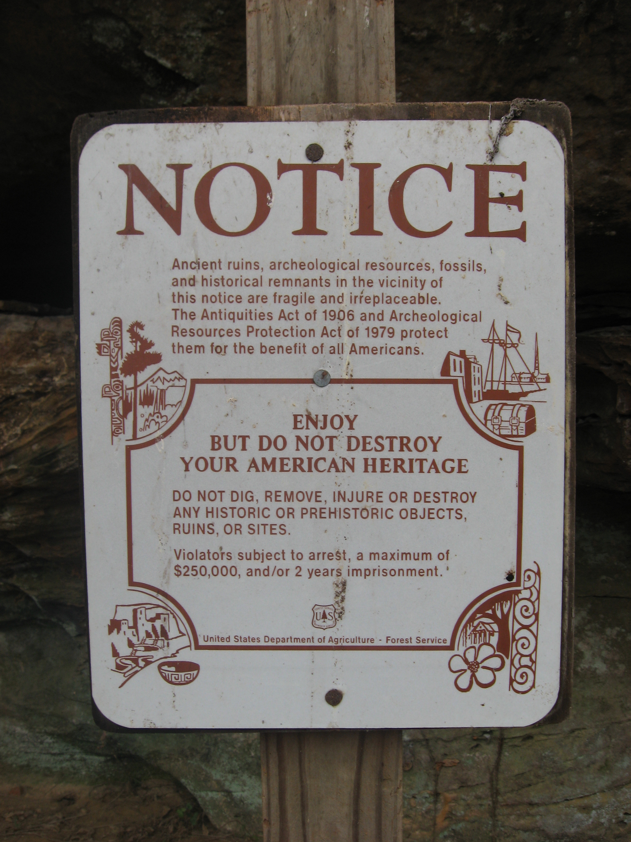 An anti-vandalism warning sign at the Rockhouse Cliffs Rockshelters, located at the mouth of Rockhouse Hollow in the Hoosier National Forest northwest of Derby in Union Township, Perry County, Indiana, United States. The rockshelters are archaeological sites and are listed together on the National Register of Historic Places. The sign is placed by the US Forest Service, and as such is in the public domain per PD-USGov-USDA-FS .